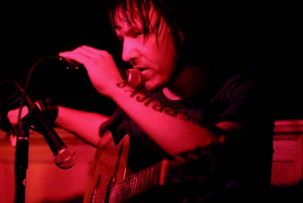 "i got an email one afternoon, around 4pm, from the owner of lit, asking me if i wouldn't mind coming down to shoot a small, 'secret' show by elliott smith that night. i grabbed my camera and ran. the basement of lit holds about 100 people crammed in tight. there was no stage, just the floor and a chair and a mike. everyone was sitting on the floor, and was reverentially quiet. sad to say he barely got through an entire song. i could actually smell him from where i sat, and it smelled like a bar at last call. his girlfriend had to physically support him to get him to the chair. it was a long way from the last time i had seen him, on the xo tour, with quasi. that was exquisite. this, i was just happy to commune with him, albeit briefly, if only to remember how much his music meant to me, and how good it was when he played it well. we were all just really happy to be there."